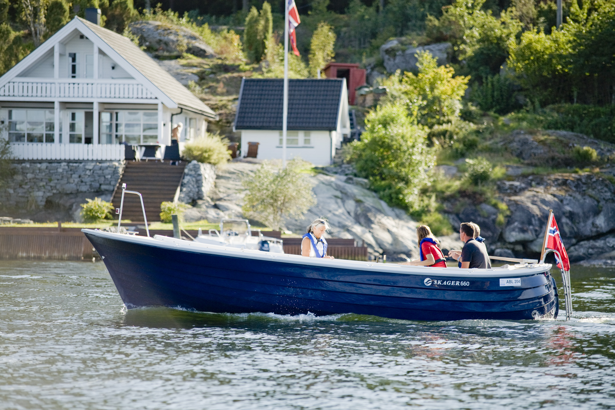 Norwegian Skager 660